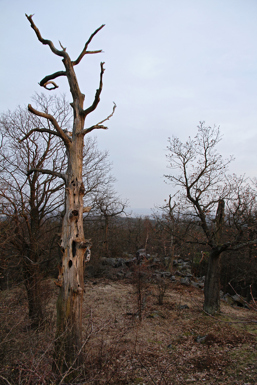 Křivoklátsko - PR Jouglovka